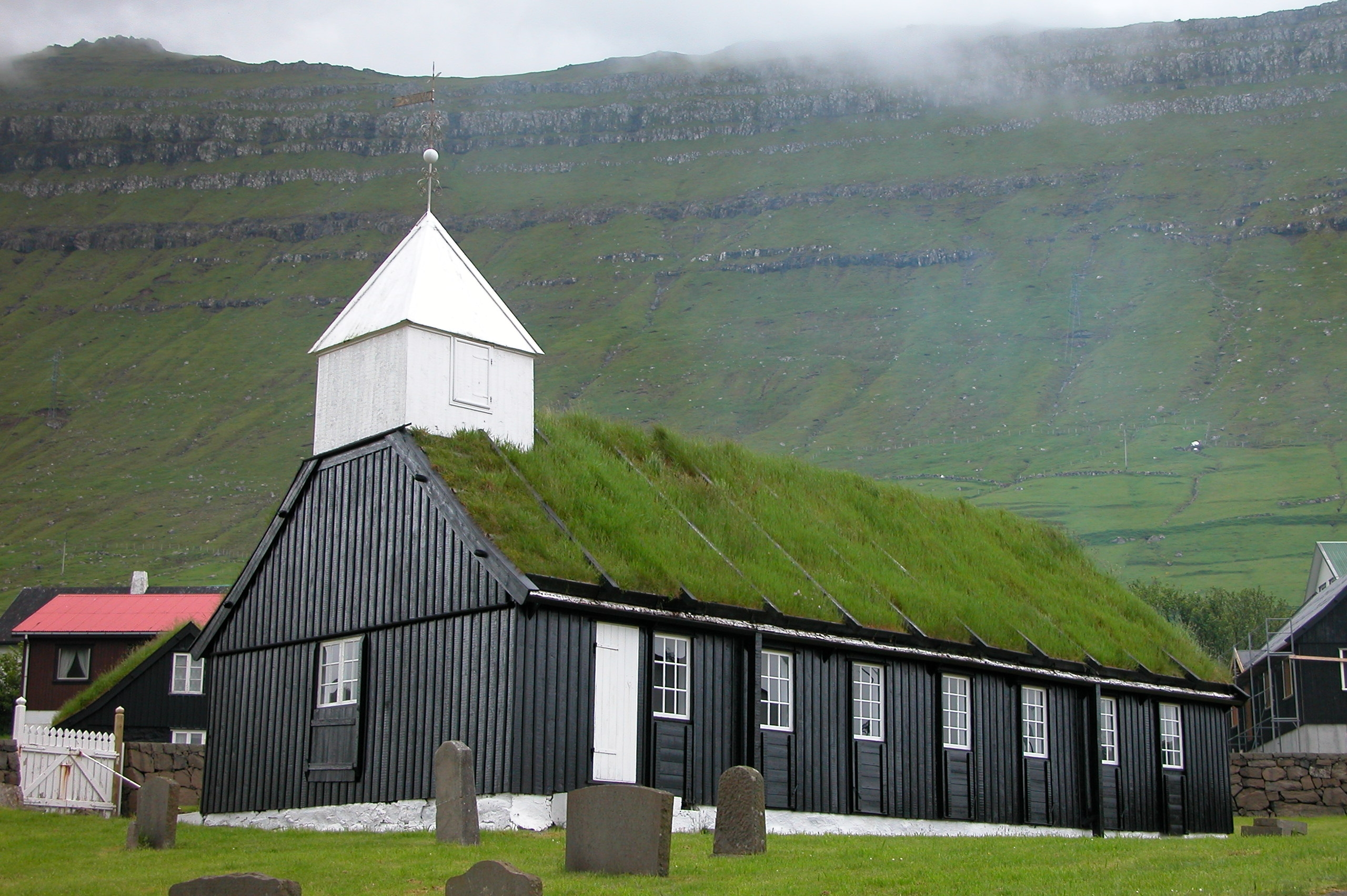 Church of Norðragøta on Eysturoy, Faroe Islands.